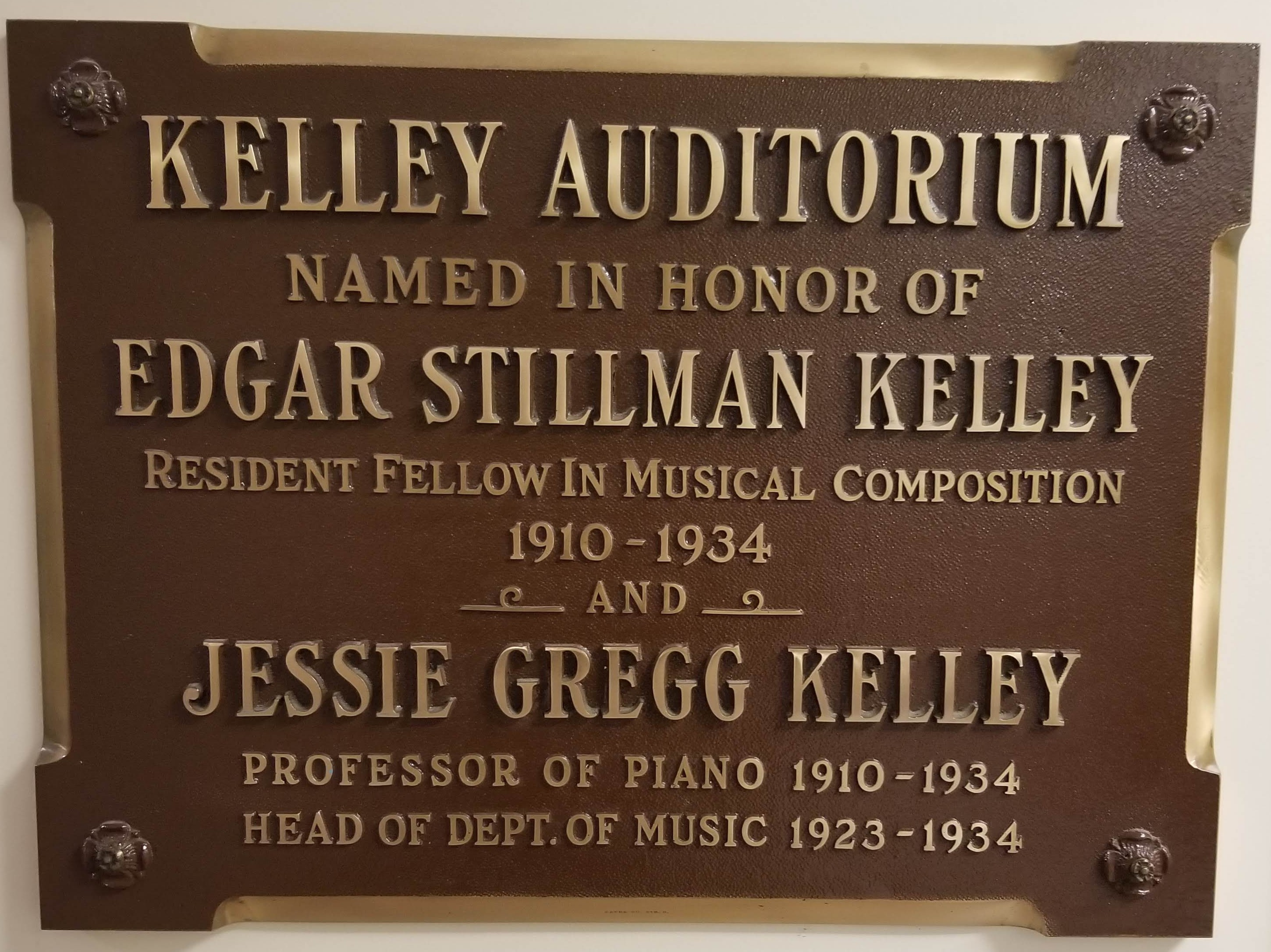 A plaque dedicated to Edgar Stillman Kelley in the present-day Presser Hall of Miami University.